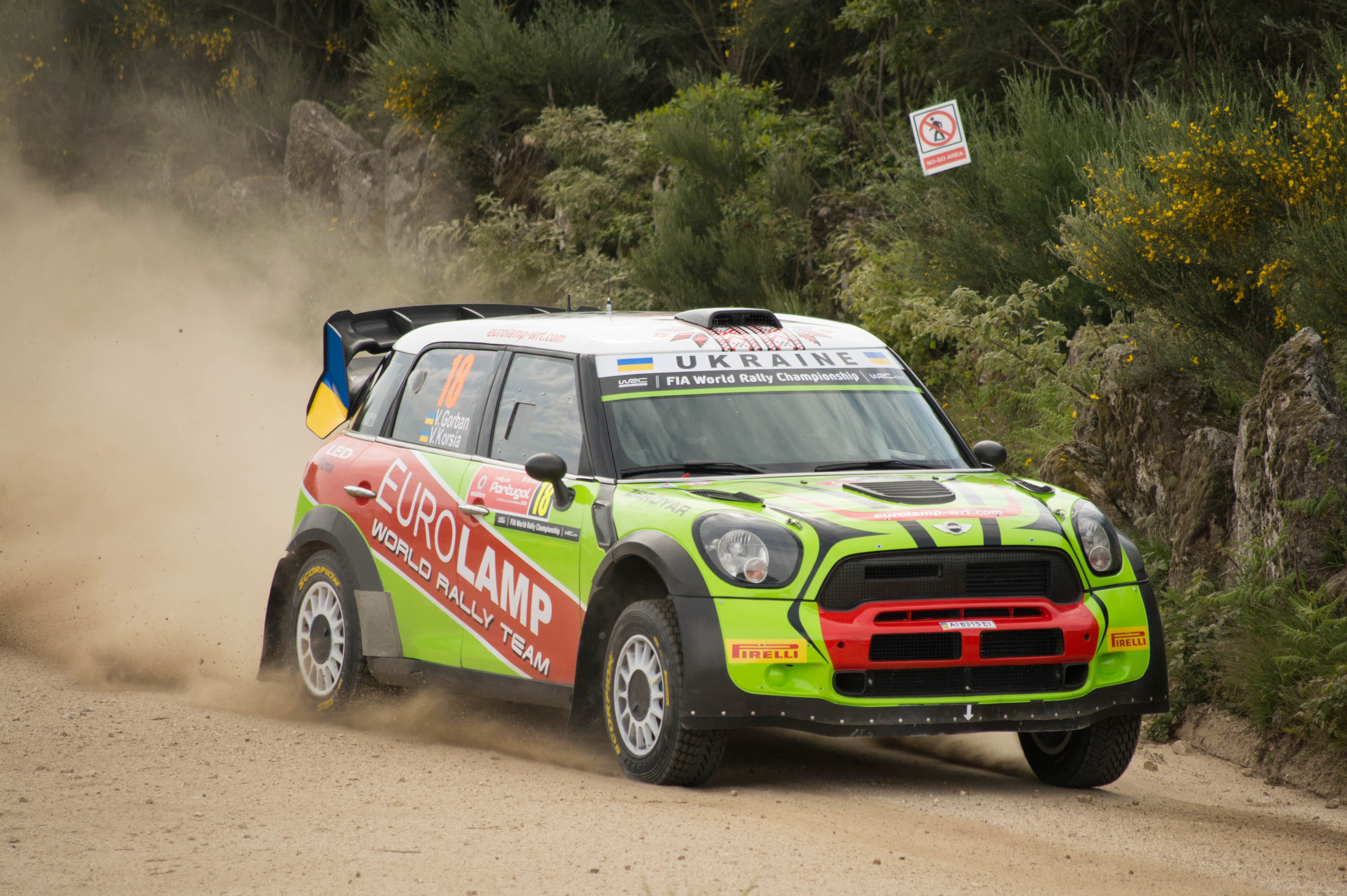 Rally of Portugal 2016. Section of "Baião", on the first pass